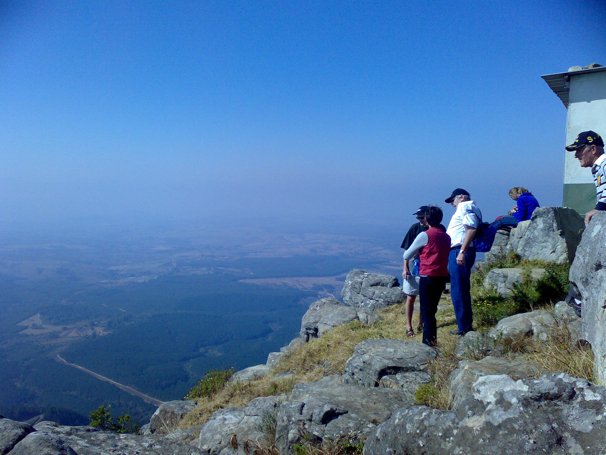 Overlooking De Kaap valley in the lowveld, from edge of escarpment, in the vicinity of Kaapsehoop village, Mpumalanga Province, South Africa